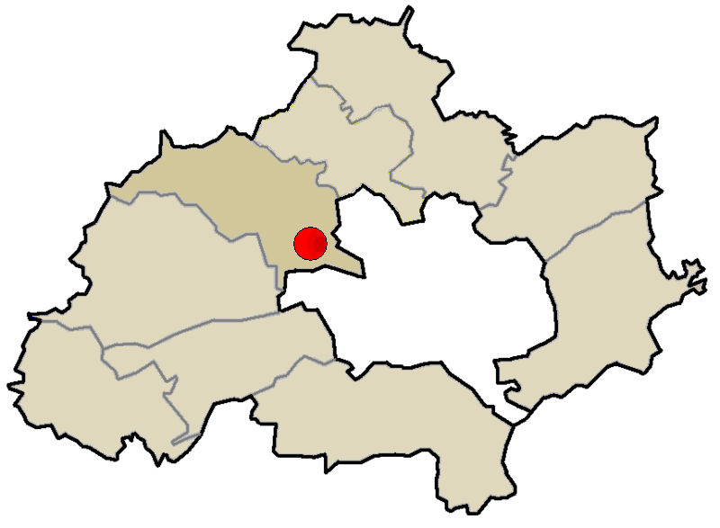 rodenbach in the landkreis kaiserslautern